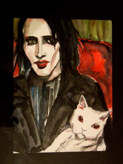 Marilyn Manson z eno od svojih domačih ljubljenk. Akvarel. 2007. Privatna last P.S./ Marilyn Manson with one of his two cats (Lilly). Watercolor. 2007. Private property of P.S.